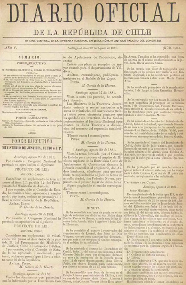 Works of Art Removed from Peruvian Territory